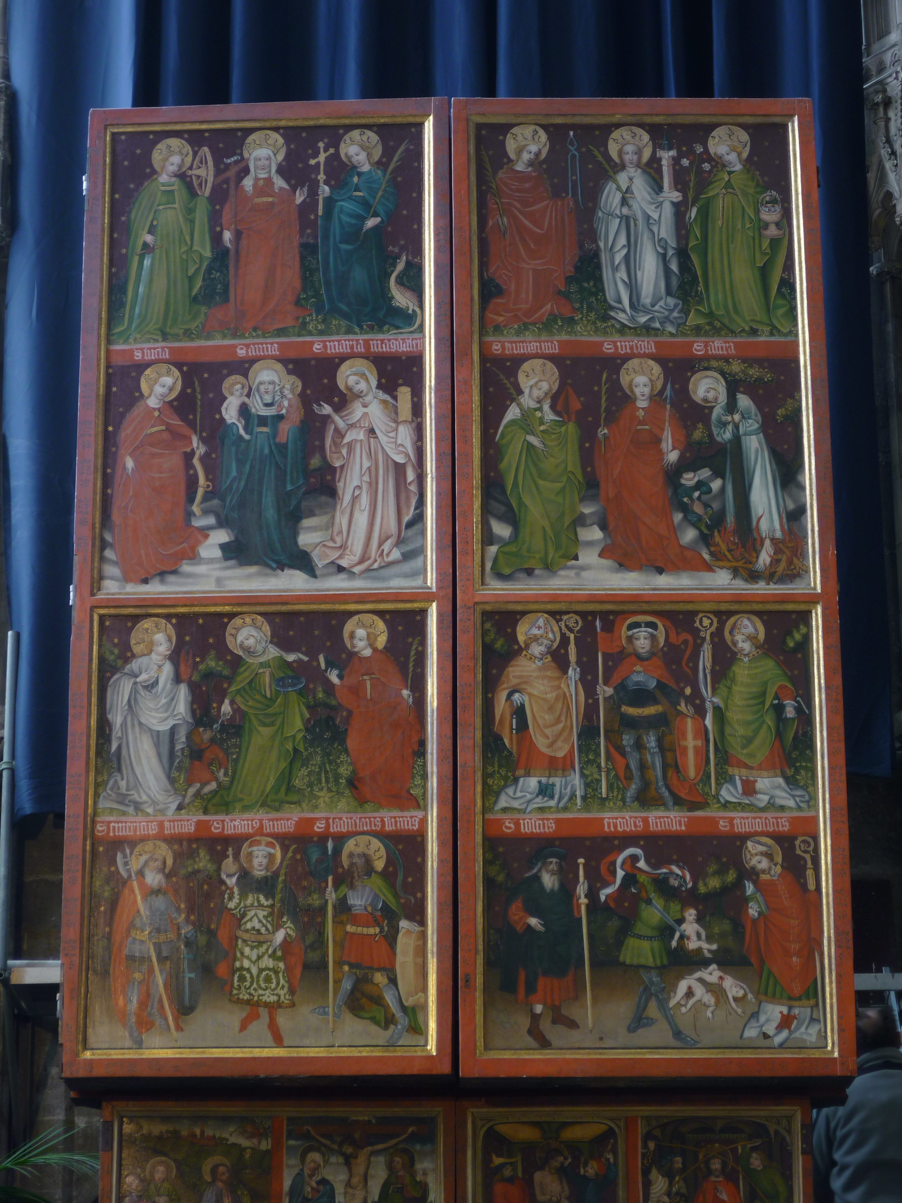 Wiener-Neustädter Altar with closed wings as it was shown in former times on weekdays